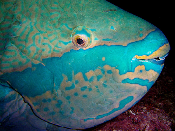 Parrot fish sleeping at the coral reef. Red Sea.